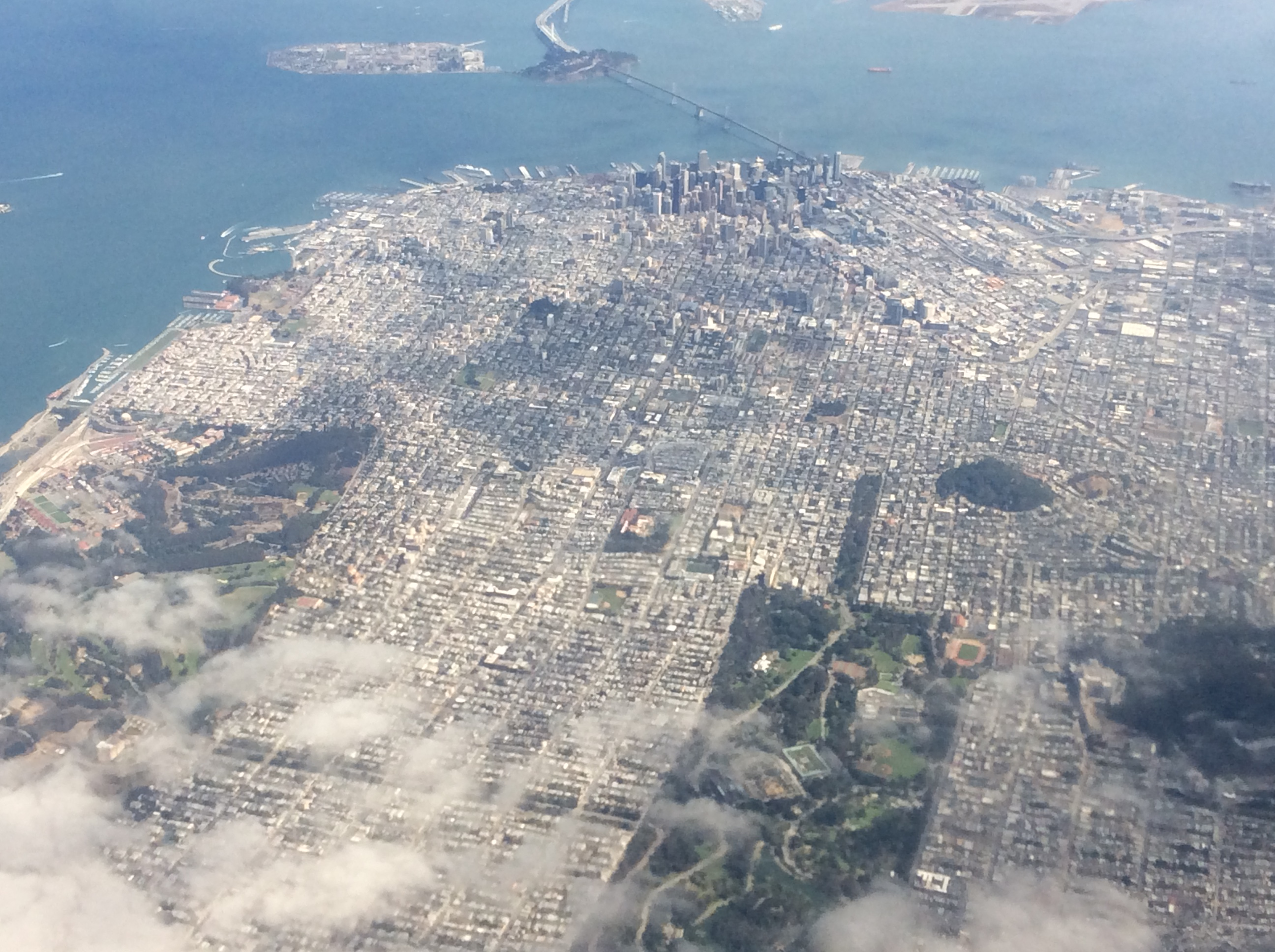 San Francisco aerial view, from west to east with downtown towards the top. Visible are the Presido (left), inner Richmond district (center left), Golden Gate Park (center) and inner Sunset (right). Towards top appear Downtown (top center) and its surrounding neighborhoods. Treasure Island and part of the Bay Bridge are visible off of downtown. Taken from passenger seat on a 737 during approach to SFO.